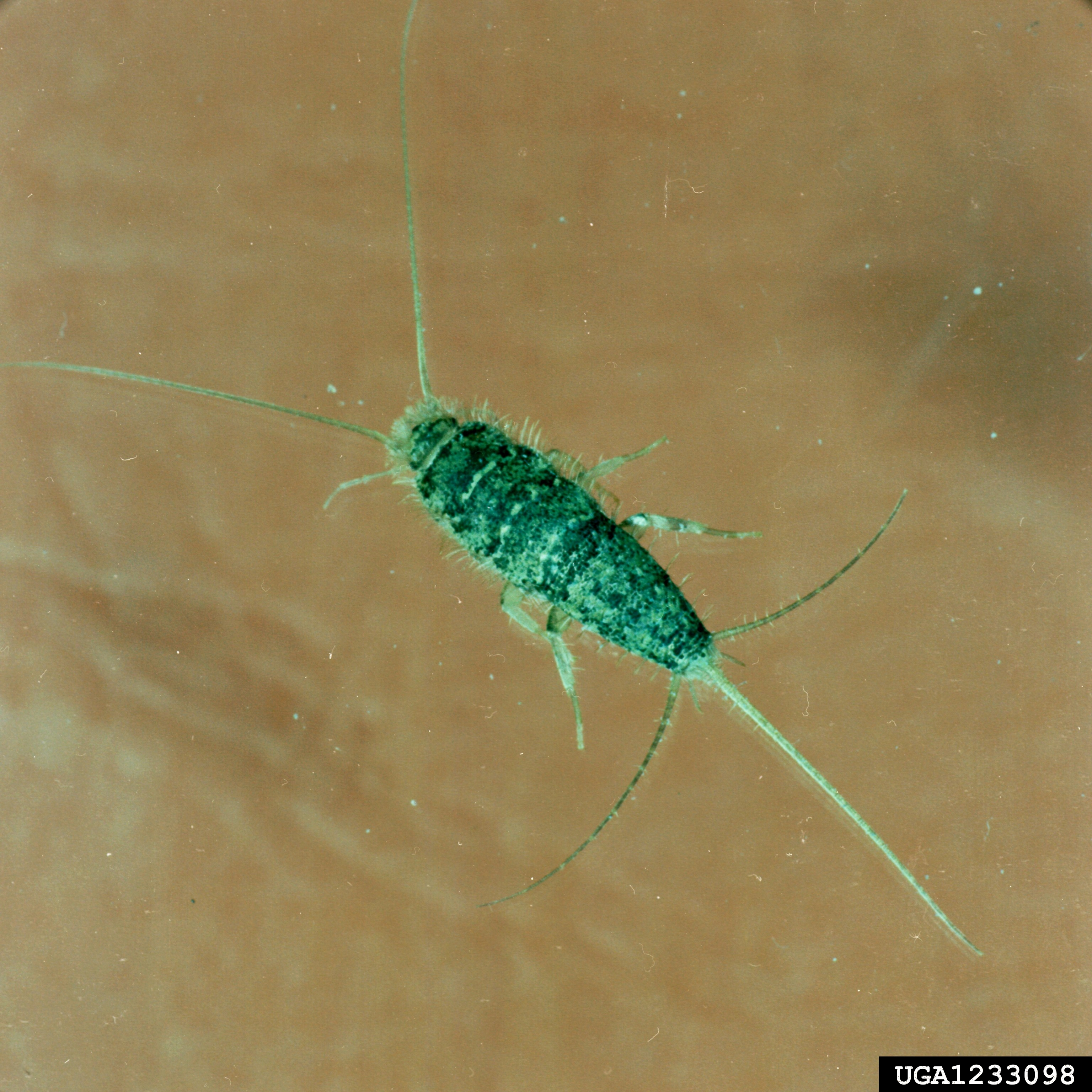 Thermobia domestica (Packard)